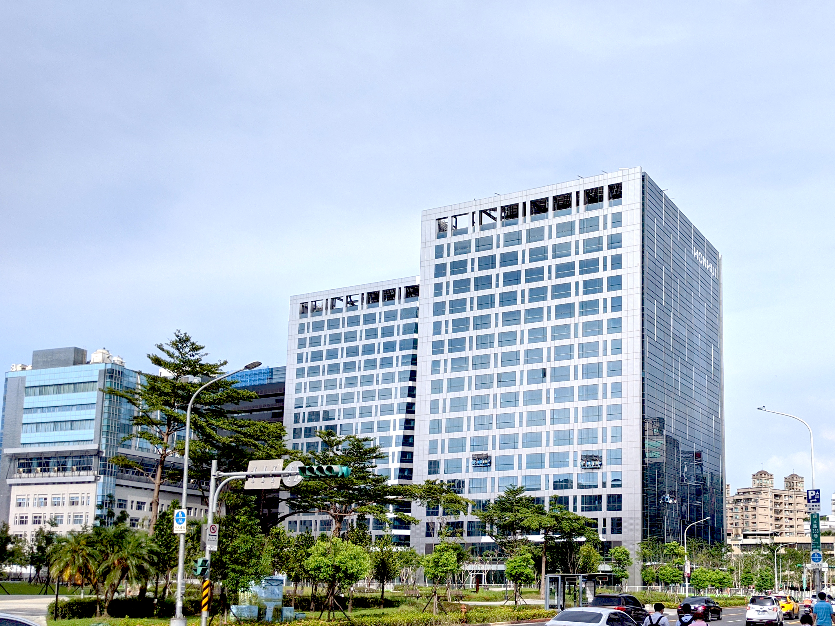 Taipei City "Heart of Neihu" BOT project under construction as in July 2020